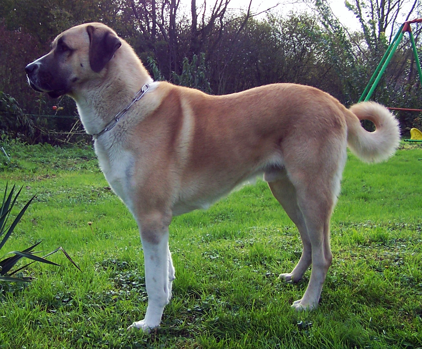 A champion Anatolian shepherd dog called Varish from France